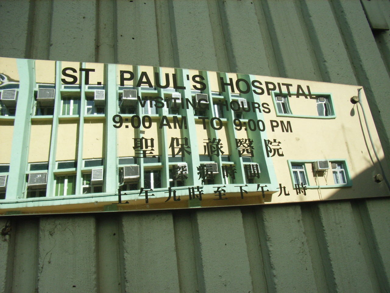 東院道 (Eastern Hospital Road)，是香港島zh:銅鑼灣南部掃桿埔的一條街道 Author: BEVERLYSHEN